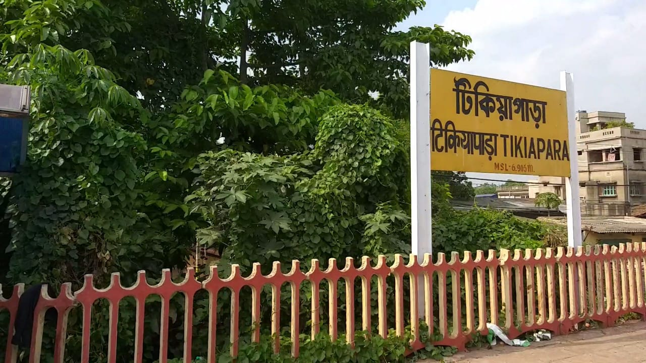 Tikiapara railway station in Howrah District